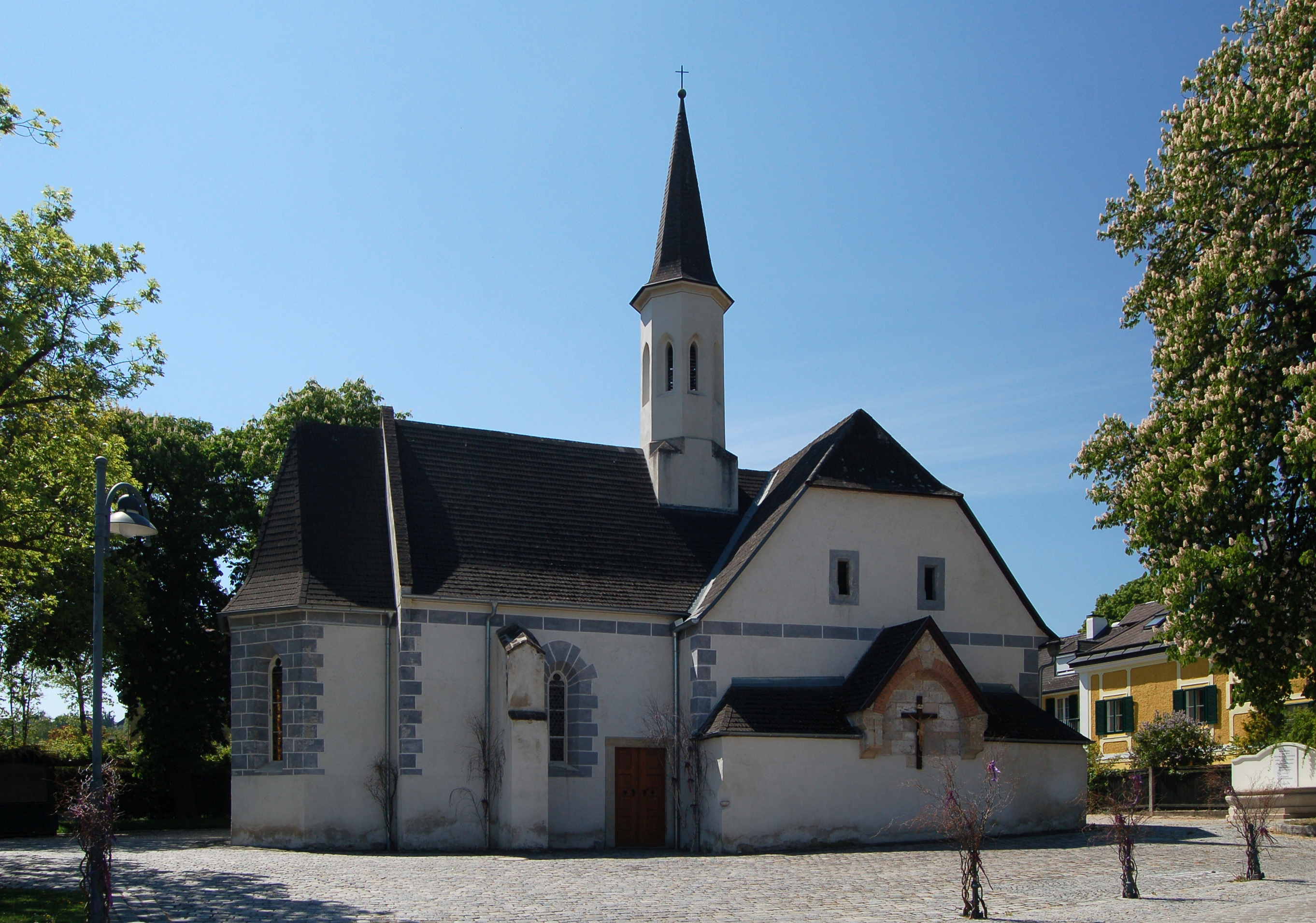 Bürgerspitalskirche (old hospital church) in Enzesfeld, Lower Austria.